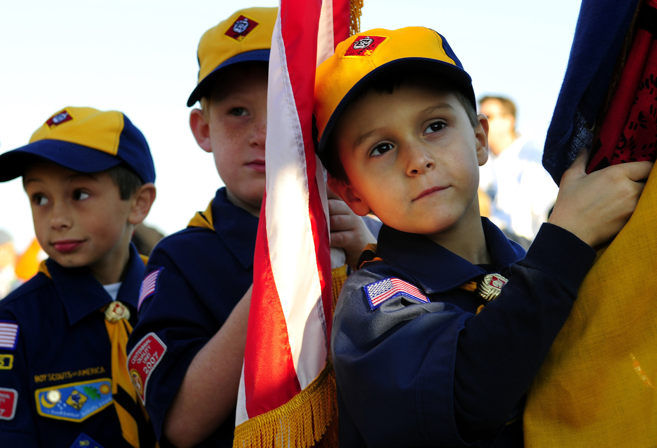 VIRGINIA BEACH, Va. (Oct. 4, 2008) Cub Scouts from Tidewater Council Pack 55, Den 5, from Churchland, Va., prepare to parade the colors before the start of the first ever Heroes On The Bay Day fishing tournament at Naval Amphibious Base Little Creek. The event gave local fishermen and boat owners the chance to show their support to wounded service members by taking them out for a day of fishing and boating on the Chesapeake Bay. (U.S. Navy photo by Mass Communication Specialist 2nd Class Kristopher S. Wilson/Released)